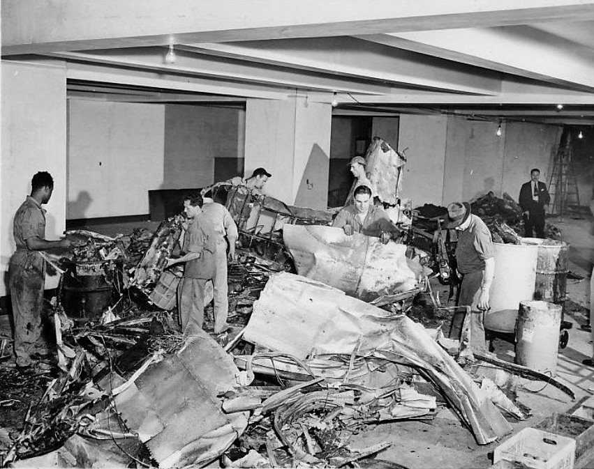 Photo of workmen clearing the wreckage of the B-25 bomber that crashed into the Empire States Building at the 78th floor in 1945.